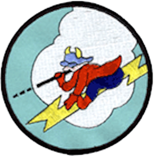 Emblem of the 385th Fighter Squadron (USAAF)